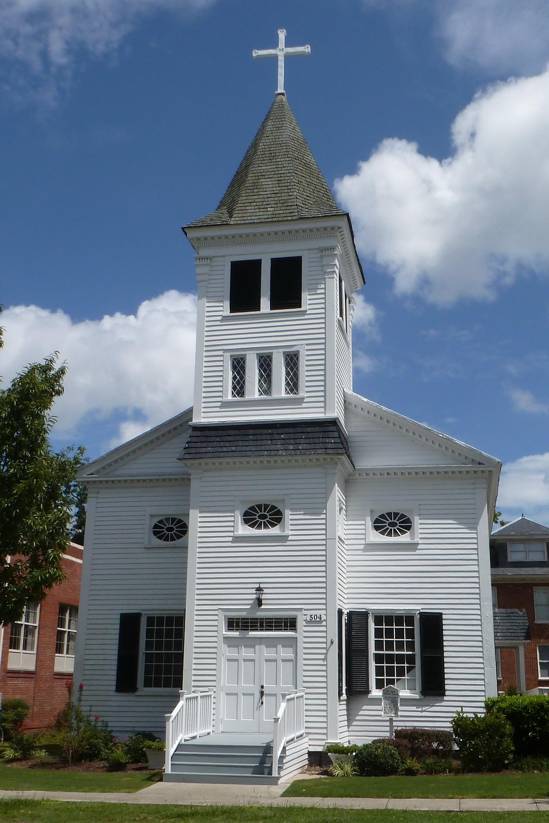 Built 1840. The oldest Catholic Church in North Carolina. Bishop John England laid the cornerstone in 1840. The steeple was added in 1896 by Architect Herbert Woodley Simpson